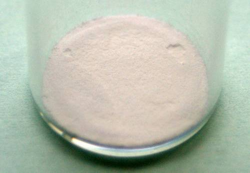 Boron(iii) oxide powder